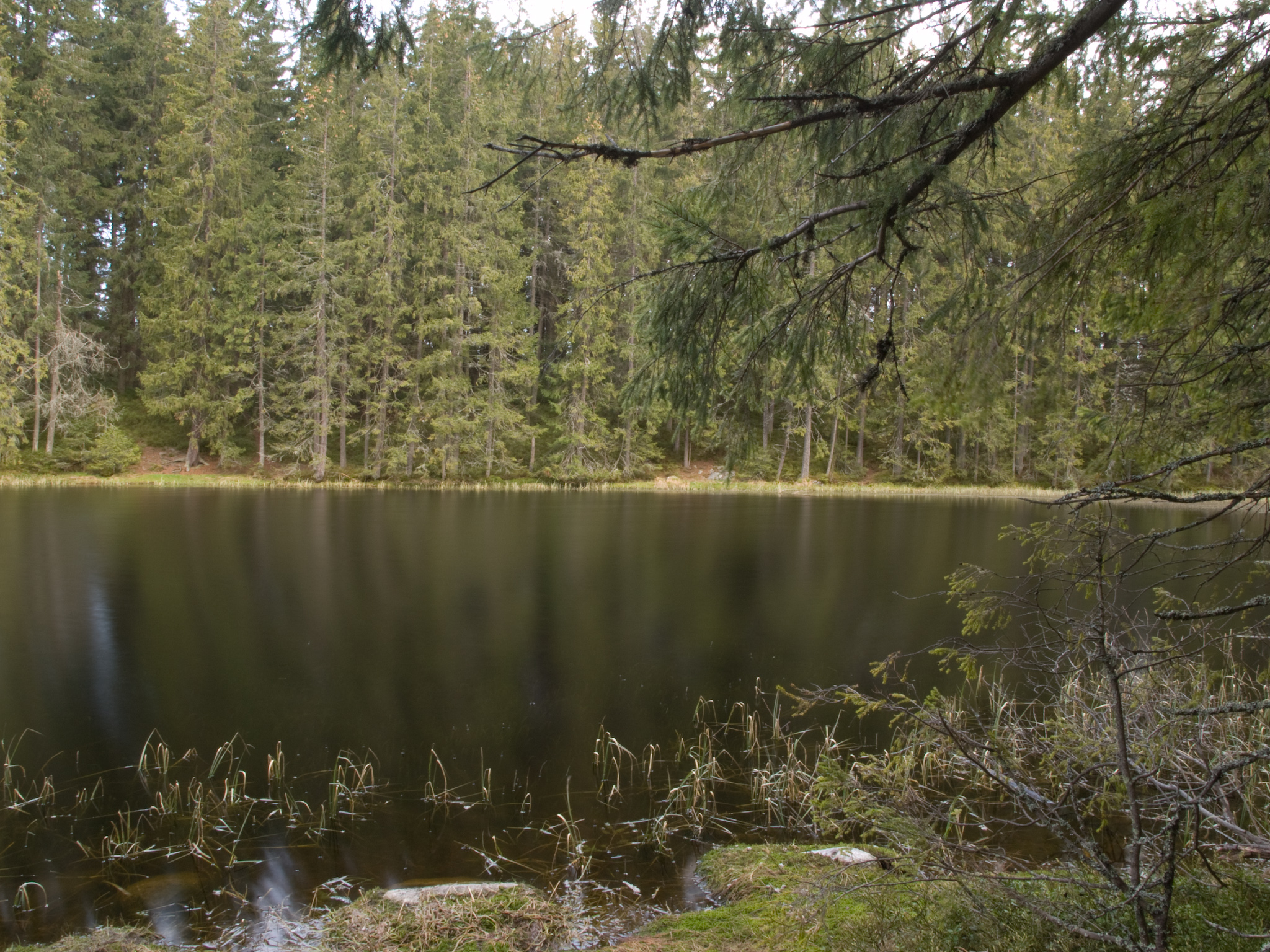 Toporowy Staw Niżni